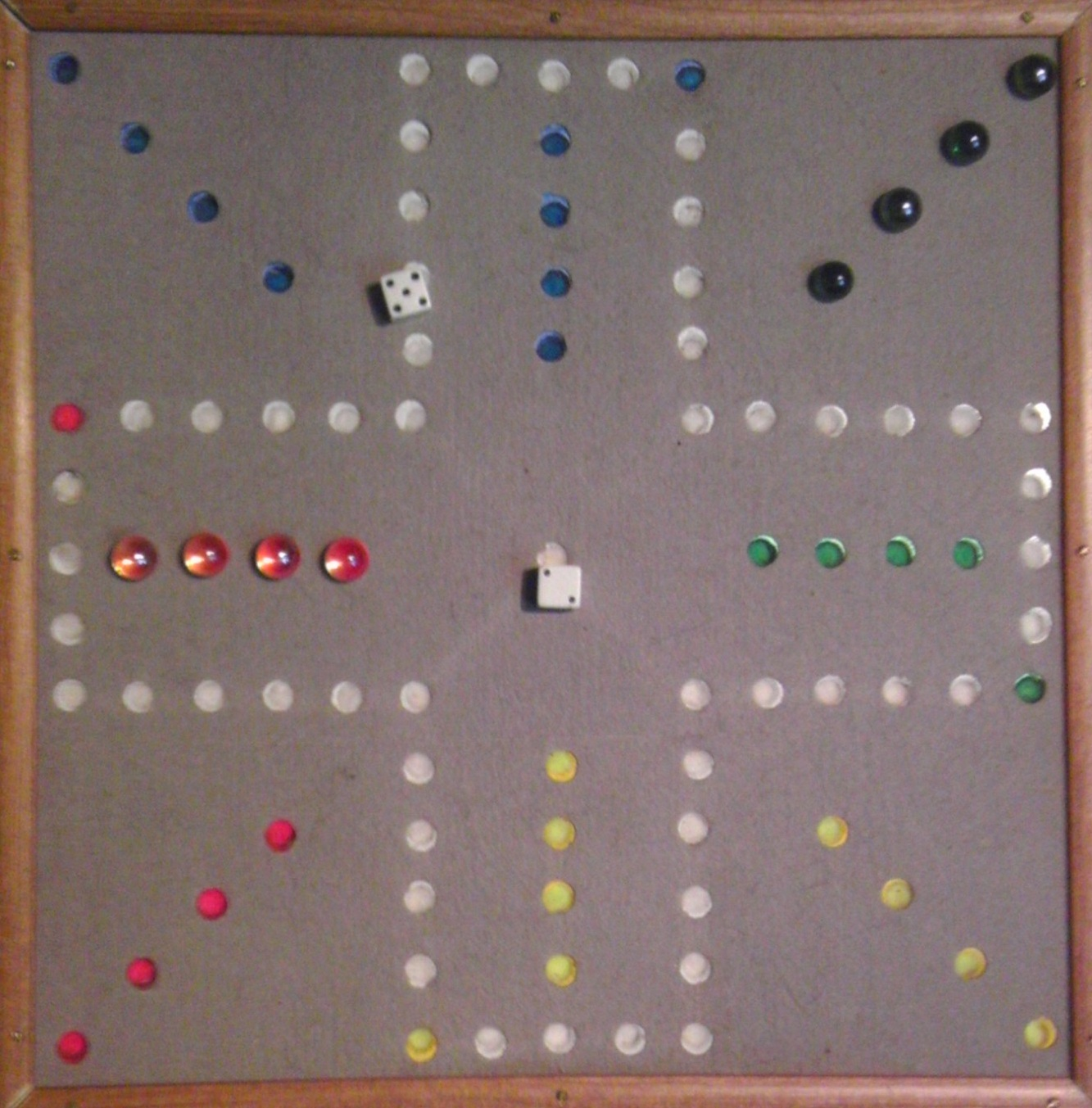 Home made by John Heckathorn (Grandfather) Wilmington, NC